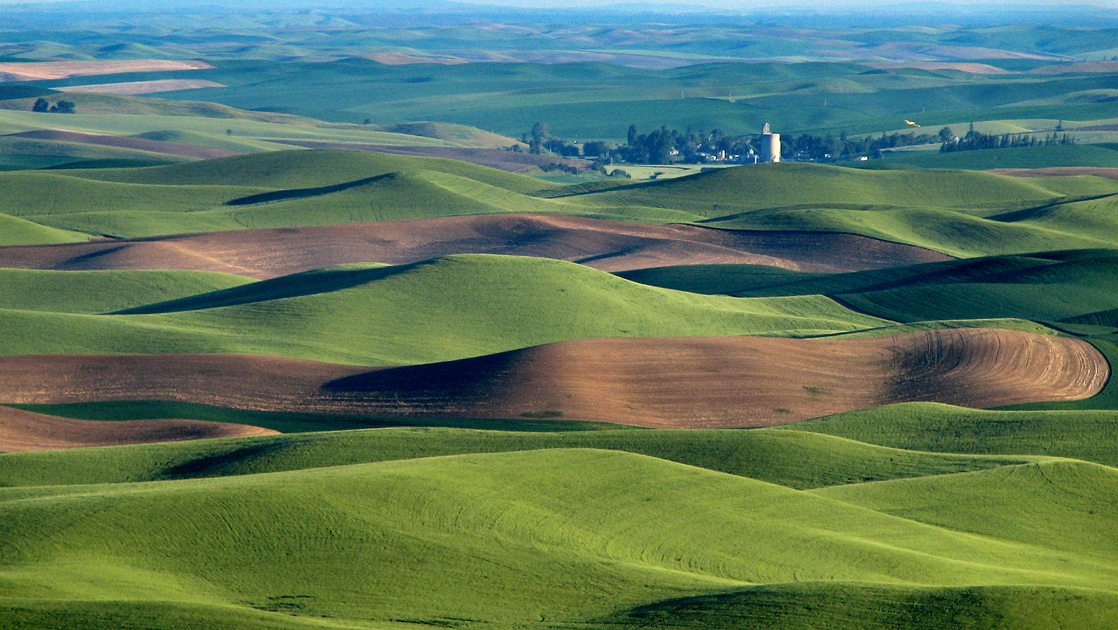 We were hearing a sound like a plane and couldn't figure out where the plane was. Finally one of us spotted a yellow plane flying in the area of the grain elevator! Amazing. Steptoe Butte is the perfect high point in the Palouse Hills to catch the shadow and light play on the hills of the area at sunset and sunrise. This is a morning capture. During one of the ice ages (about 15,000 years ago) Clark Fork River (Montana) was dammed by ice, forming Missoula Lake, the top of which was about 2,000 feet in elevation. About every 2 to 60 years there was thermal erosion of the ice dam and it would collapse and let a flood go through for about 3 days -- whatever time it took to drain Missoula Lake. Many layers of silt left by multiple Missoula floods were topped by loess (dirt blown on top) which made for great rolling hills of farmlands.